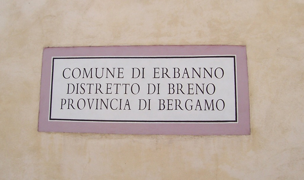 Iscription about the Comune of Erbanno, Val Camonica